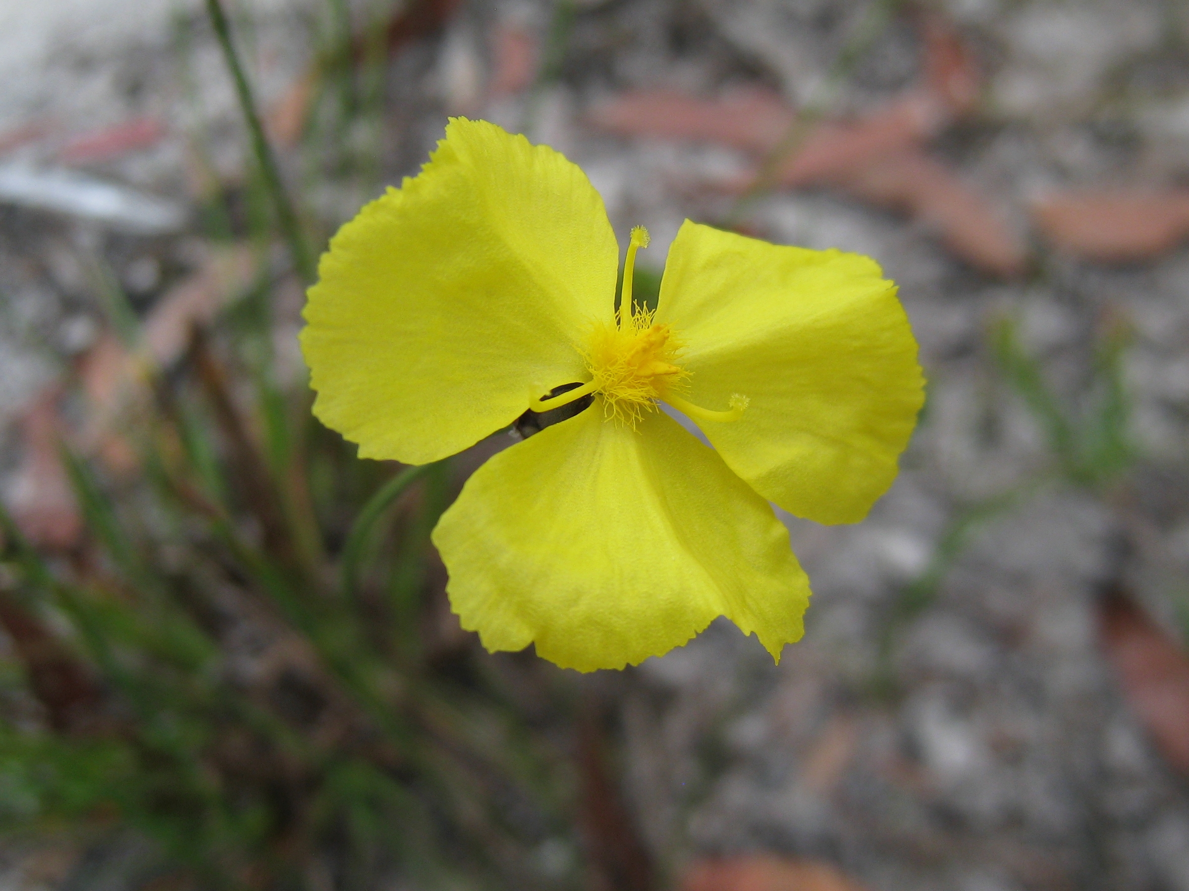 Xyris bracteata. A herb growing out of the sandy track. Royal National Park, NSW Australia, December 2010.